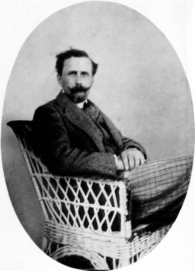 Adolf Loos, photographiert um 1905